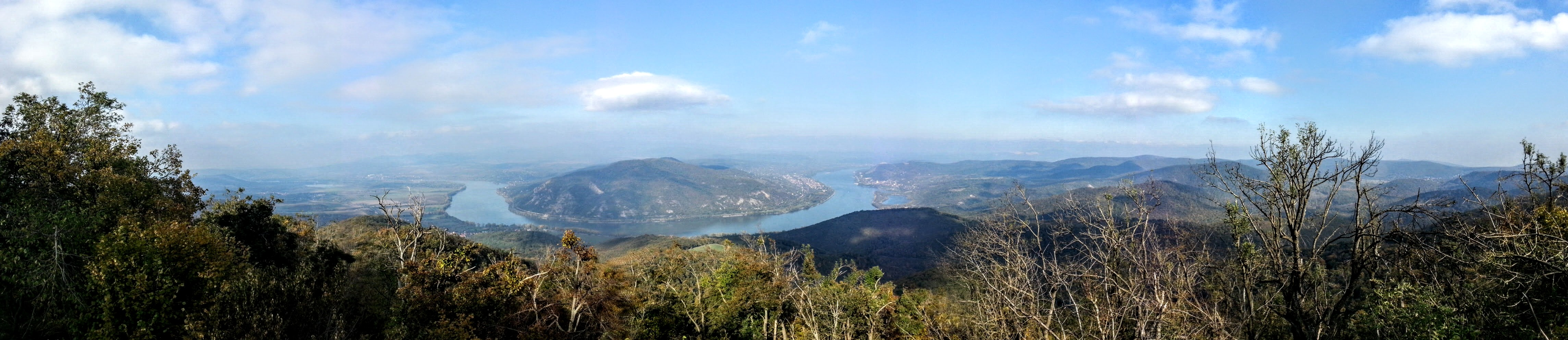 View from Prédikálószék, Hungary